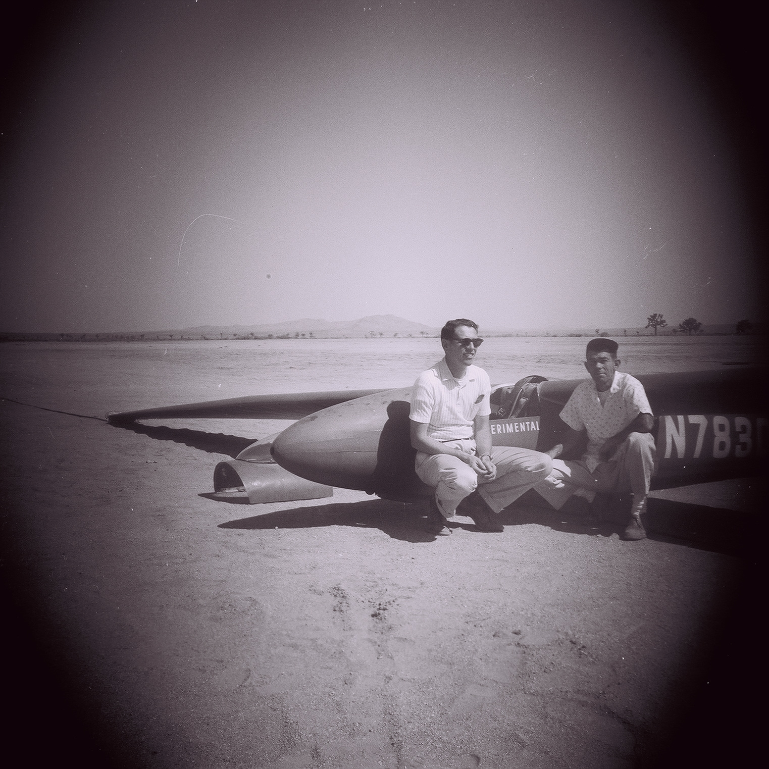 George C. Tweed Jr. with Jack Green and the GT-1 sailplane after first flight at Elsinore, CA